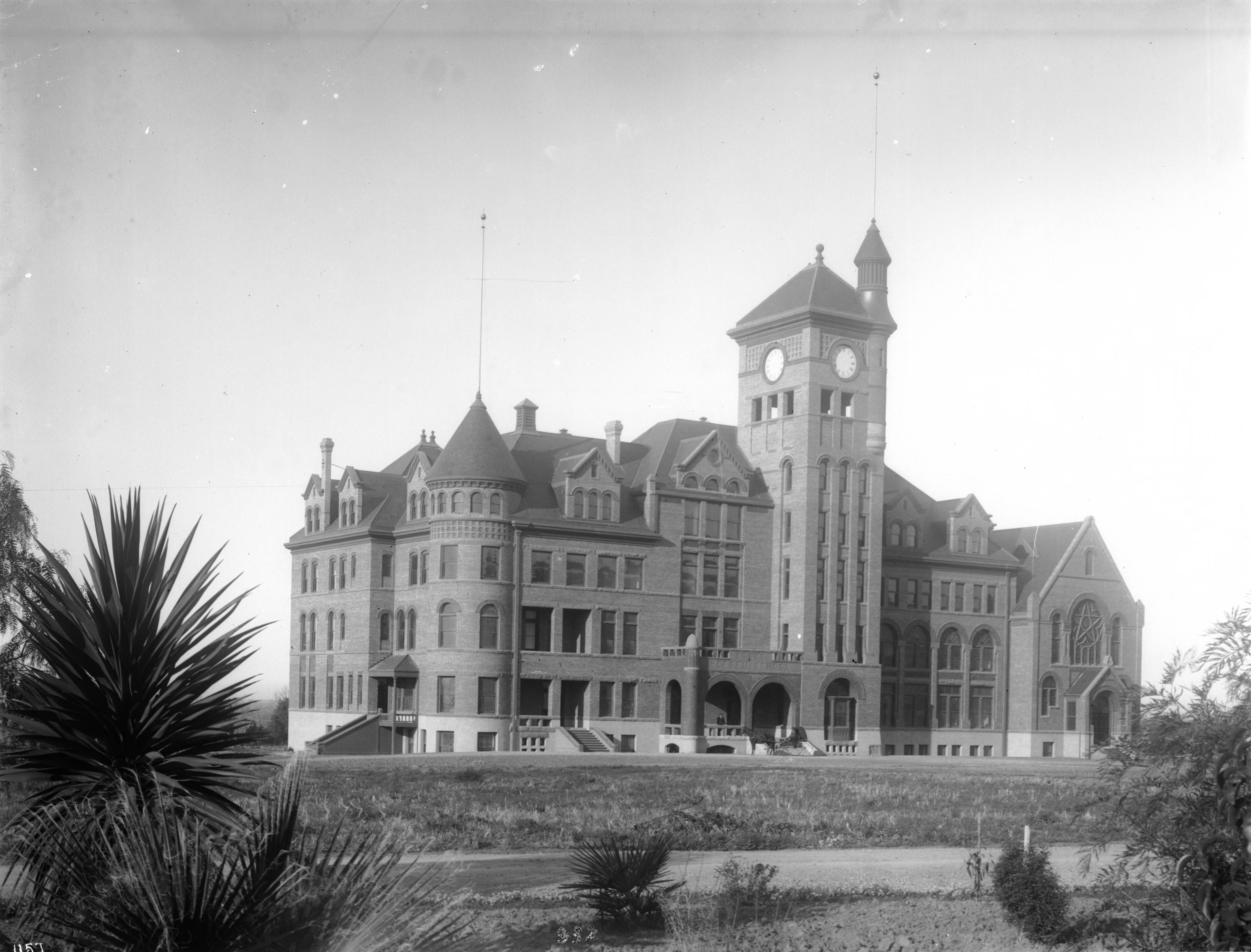 California State Reform School at Whittier, ca.1901 Photograph of the exterior of the California State Reform (Industrial) School in Whittier, ca.1901. The four-story brick building has a round pointed cupola on one corner, a tall square clock tower with round turret on one of its corners. Over the main door is the name "State Reform School. A man is standing on the covered entry porch near a horsedrawn carriage standing in front of the school. A few plants are visible in the foreground. Call number: CHS-1157 Legacy record ID: chs-m6774; USC-1-1-1-6888 Photographer: Pierce, C.C. (Charles C.), 1861-1946 Filename: CHS-1157 Coverage date: circa 1901 Part of collection: California Historical Society Collection, 1860-1960 Type: images Geographic subject (city or populated place): Whittier Repository name: USC Libraries Special Collections Accession number: 1157 Microfiche number: 1-58-1 Archival file: chs_Volume55/CHS-1157.tiff Part of subcollection: Title Insurance and Trust, and C.C. Pierce Photography Collection, 1860-1960 Repository address: Doheny Memorial Library, Los Angeles, CA 90089-0189 Geographic subject (country): USA Format (aacr2): 1 photograph : glass photonegative, b&w ; 17 x 22 cm. Rights: Digitally reproduced by the USC Digital Library; From the California Historical Society Collection at the University of Southern California Subject (adlf): educational facilities Project: USC Repository Contributing entity: California Historical Society Date created: circa 1901 Publisher (of the digital version): University of Southern California. Libraries Format (aat): photographs Geographic subject (state): California Subject (file heading): Los Angeles County -- Whittier -- Architecture -- Schools Format: glass plate negatives Access conditions: Send requests to address or e-mail given. Phone (213) 821-2366; fax (213) 740-2343. Geographic subject (county): Los Angeles Subject (lcsh): Schools Subject: California State Reform School